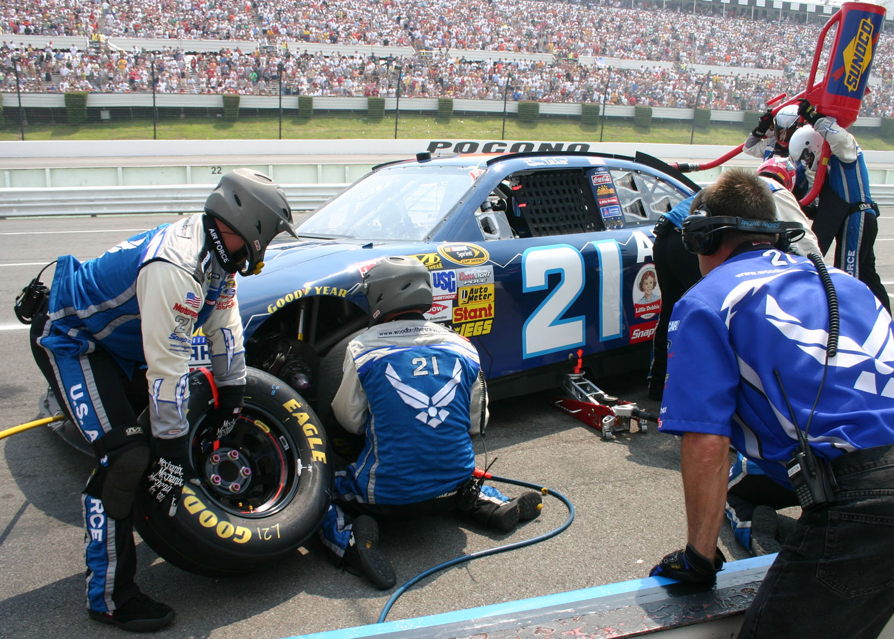 The Wood Brothers Racing pit crew completes tire changes and refueling with speed and precision accuracy. (U.S. Air Force photo/ Dale Eckroth)